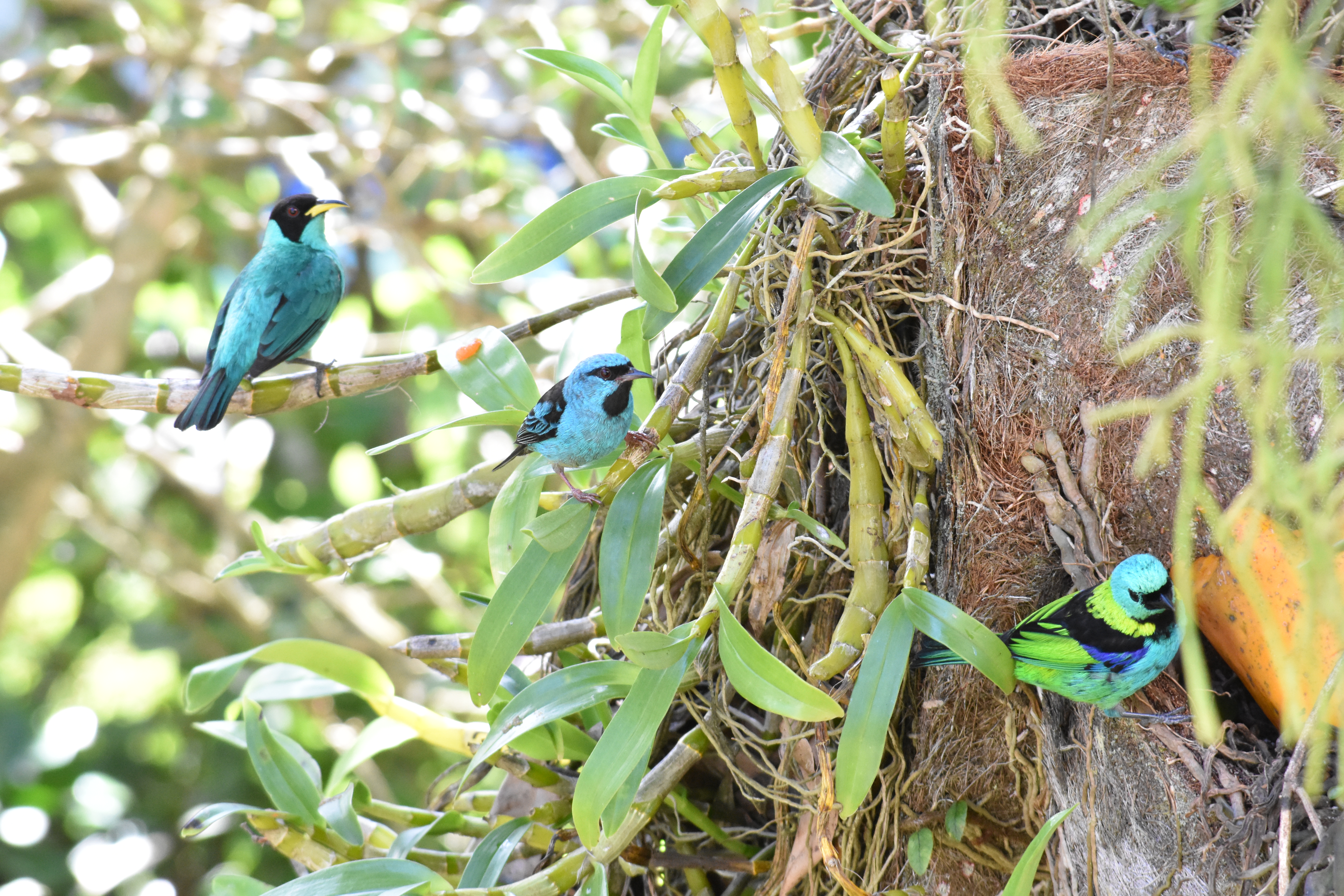 Three species of the Thraupidae Family together: Chlorophanes spiza, Dacnis cayana and Tangara seledon